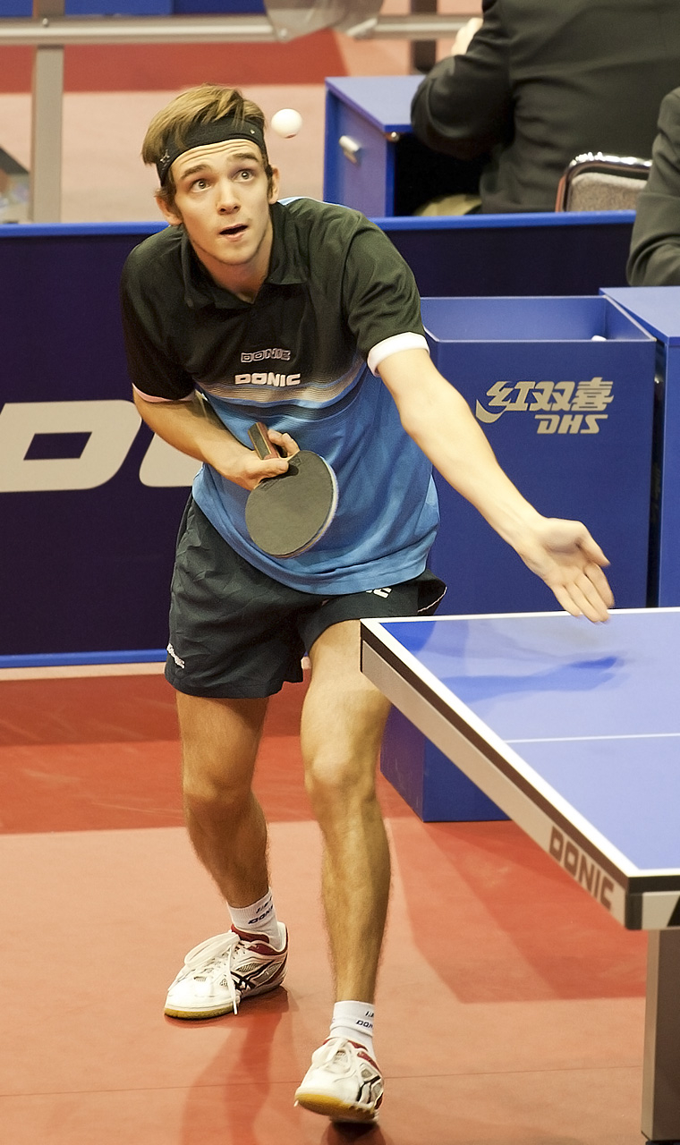 ITTF World Tour 2017 German Open, Magdeburg, Germany, 7 Nov 2017 - 12 Nov 2017, Kirill Gerassimenko